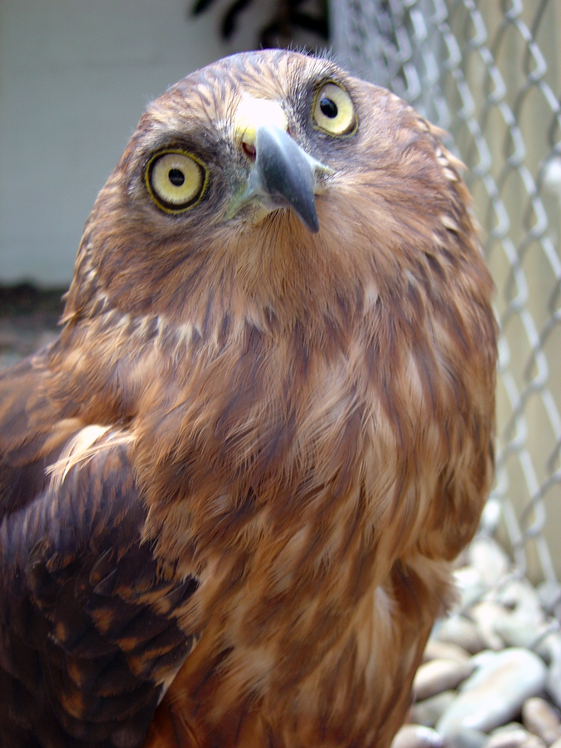 Swamp Harrier (Circus approximans), at the Kula Eco Park near Sigatoka, Viti Levu, Fiji. Kula Eco Park works in cooperation with The National Trust for Fiji, The Endangered Species Recovery Council of San Diego, The Parks Board of New South Wales, Australia, is a Full Institutional Member of The Australasian Regional Association of Zoological Parks & Aquaria, an Honorary Associate of the Royal Zoological Society of South Australia and has been presented the "Excellence in Tourism" award for Best Attraction in Fiji a number of times. See the website